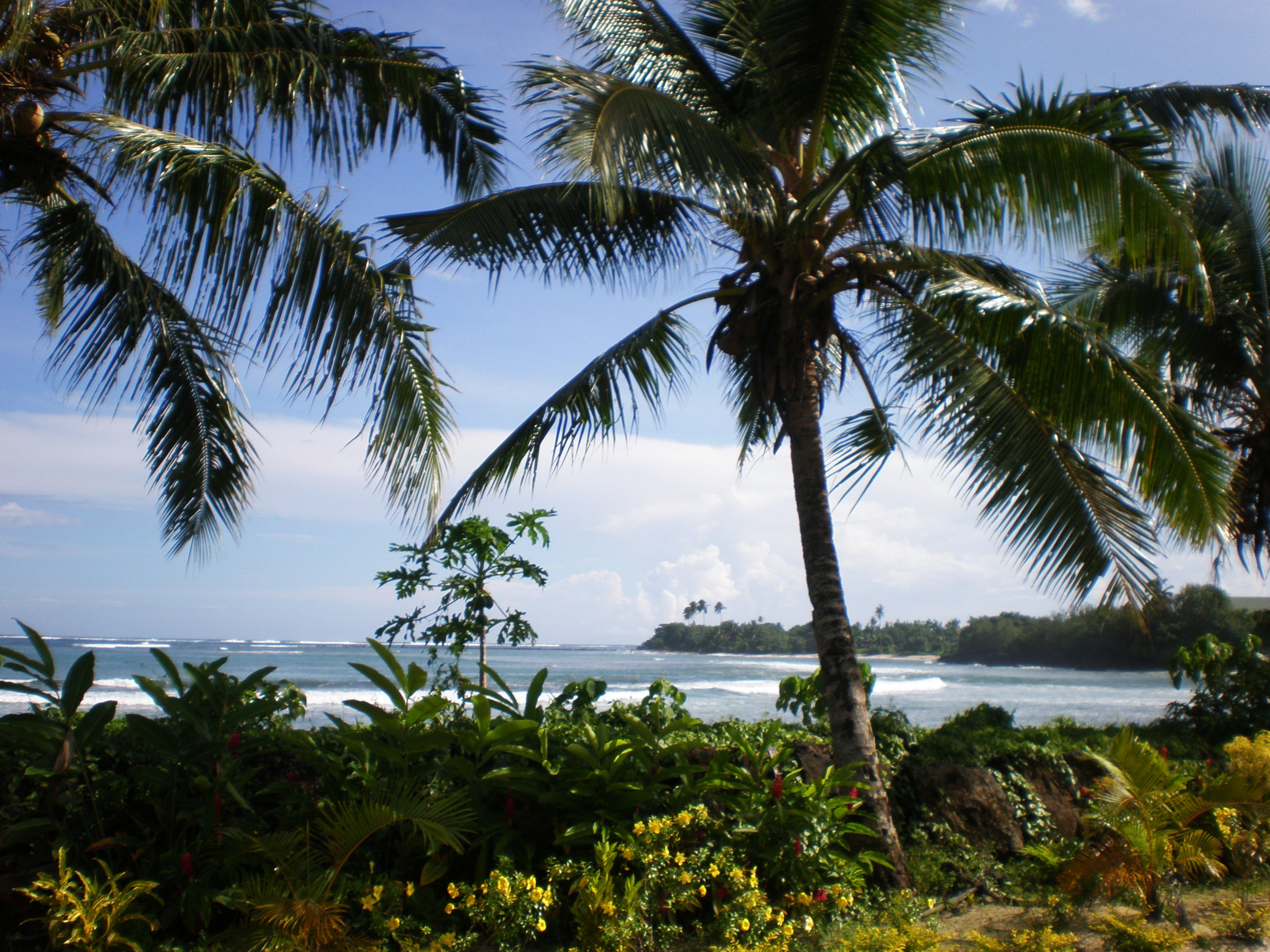 Samoa coastal scenery with palm trees foreground (new image file replacing previous uploaded (badly named file same photo) file:Savaii Scenery 1, Lelepa to Fagamalo, Savaii, Samoa, Polynesia.JPG) O le va'aiga i Samoa i talane o le sami